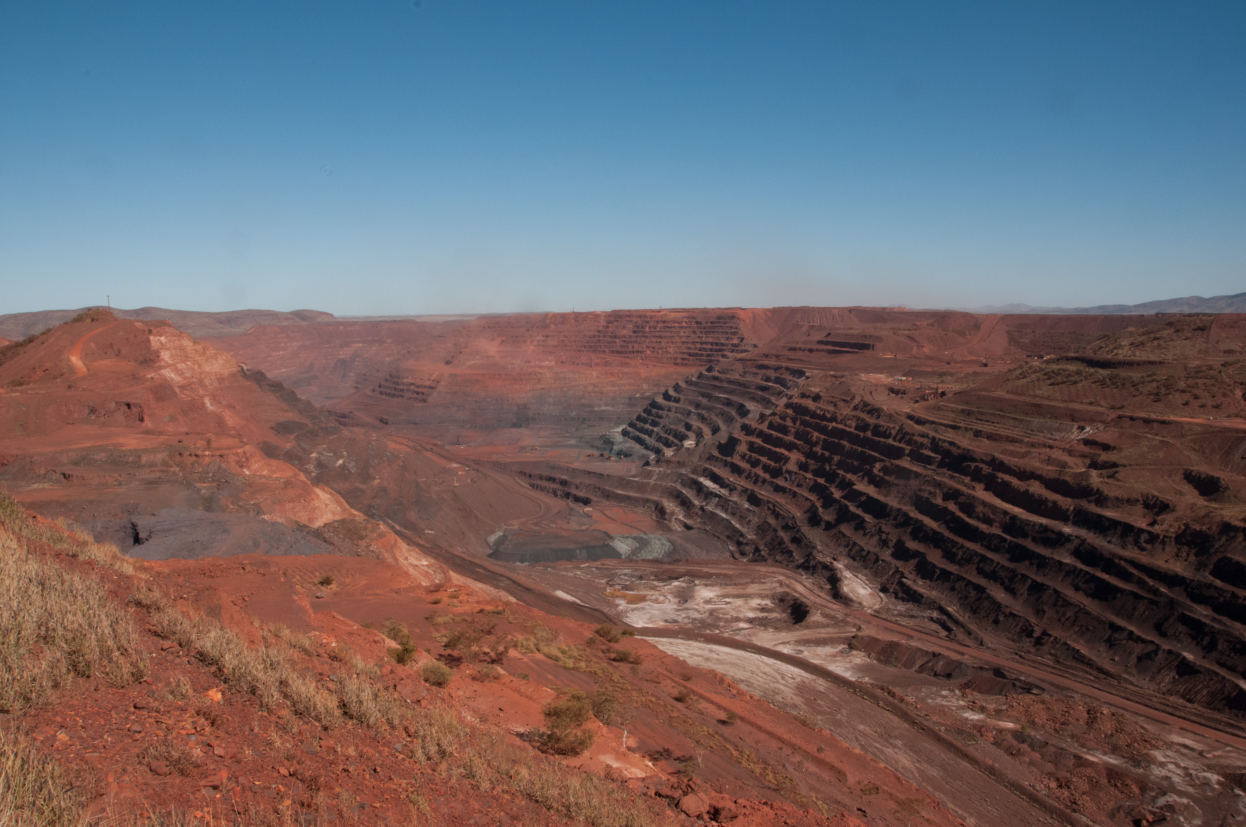 This was once Mount Whaleback